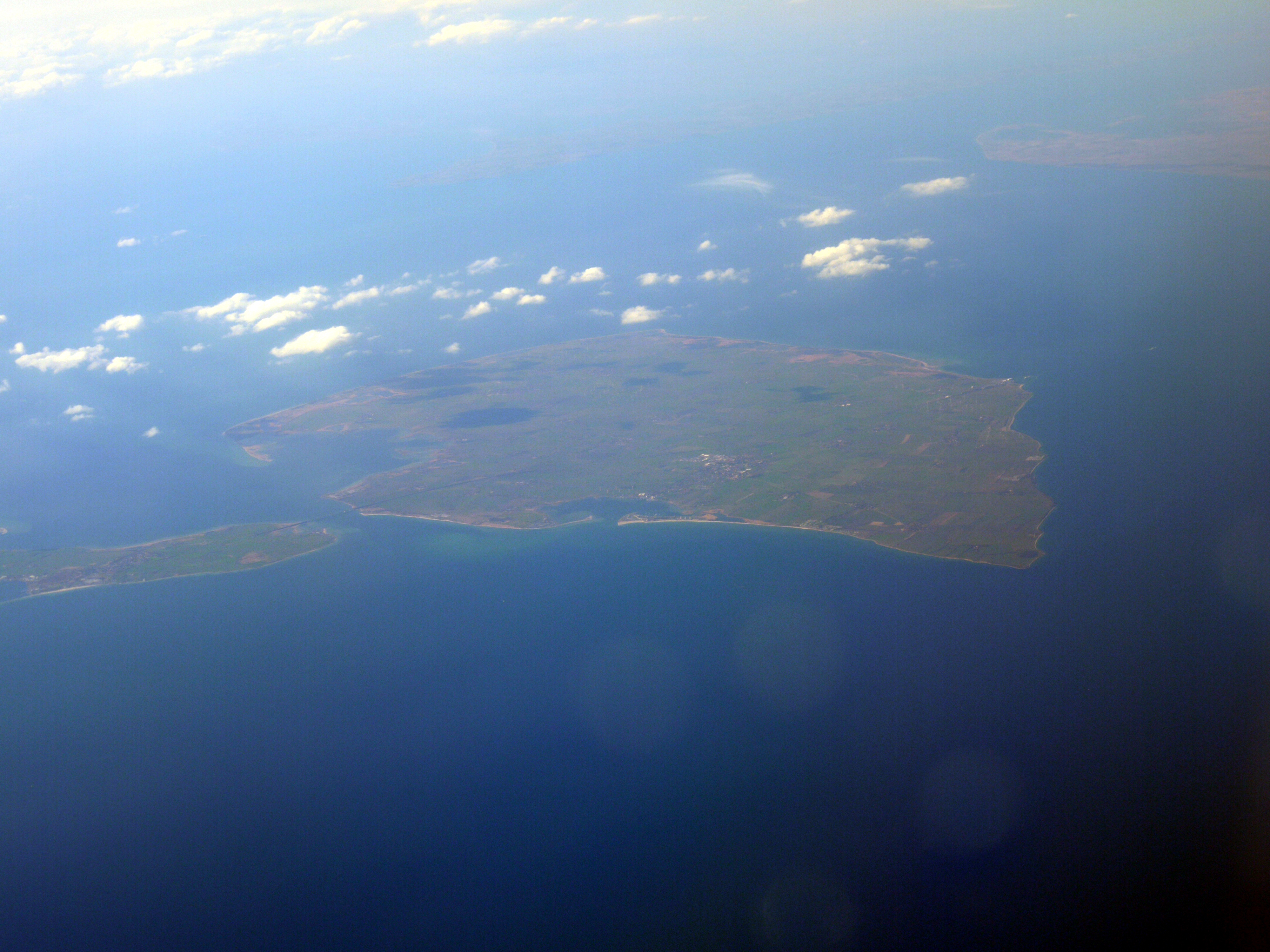 Fehmarn, photograph taken from the sky, on the fly line between Marseille and Stockholm.